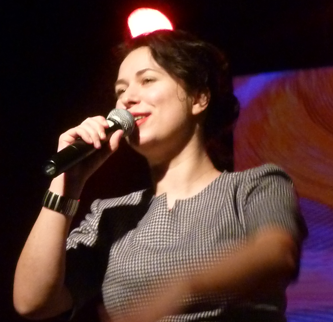 Angie Reed on "Wie es ihr gefällt"-Mini-Festival in "Maria am Ostbahnhof" in Berlin